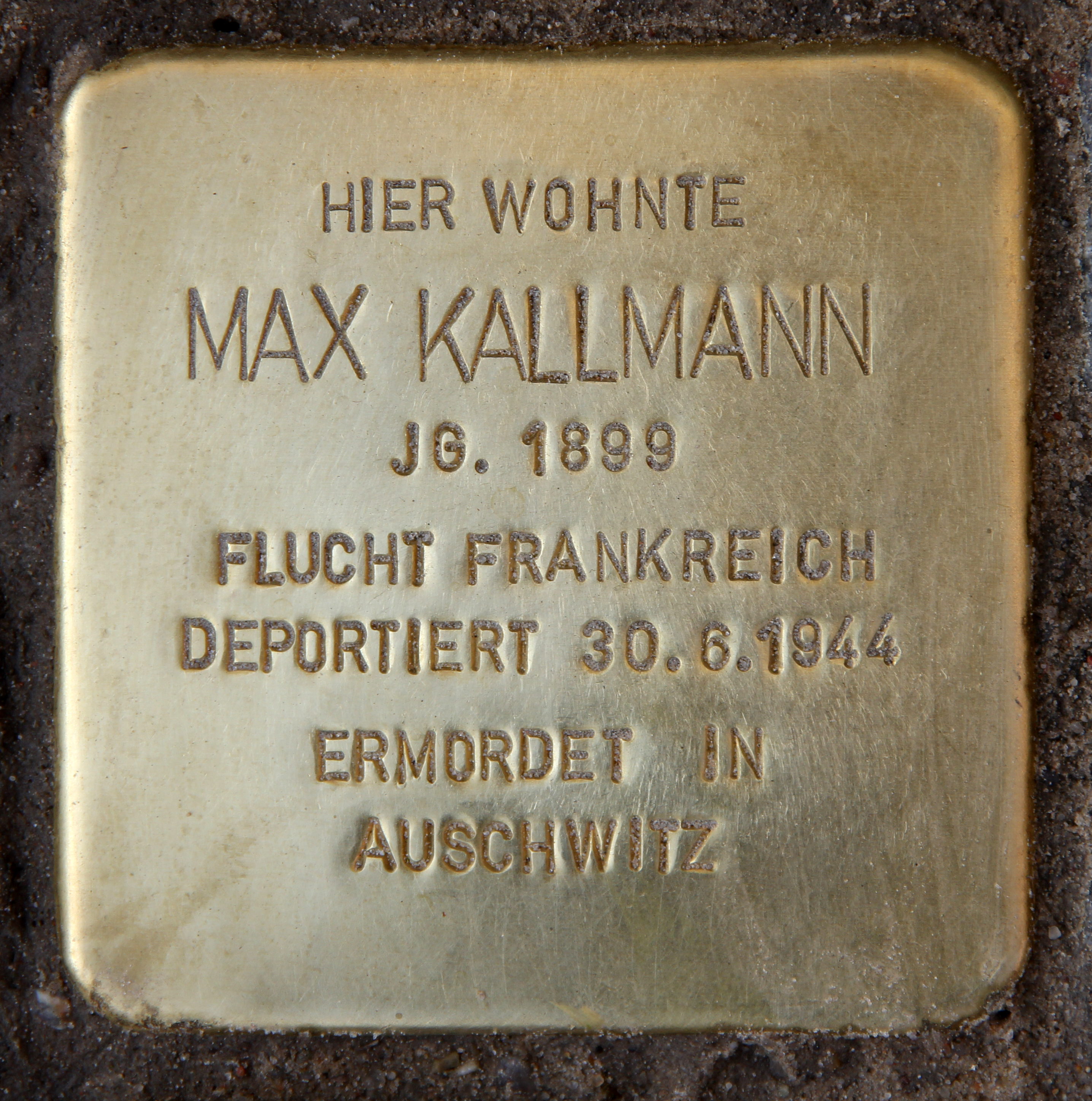 "Stolperstein" (stumbling block), Max Kallmann, Dahlmannstraße 1, Berlin-Charlottenburg, Germany